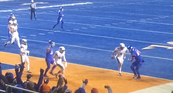 TE Alec Dhaenens of Boise State catches a touchdown from Grand Hedrick during Boise State's game vs Utah State at Albertsons Stadium in Boise, Idaho on November 29, 2014.